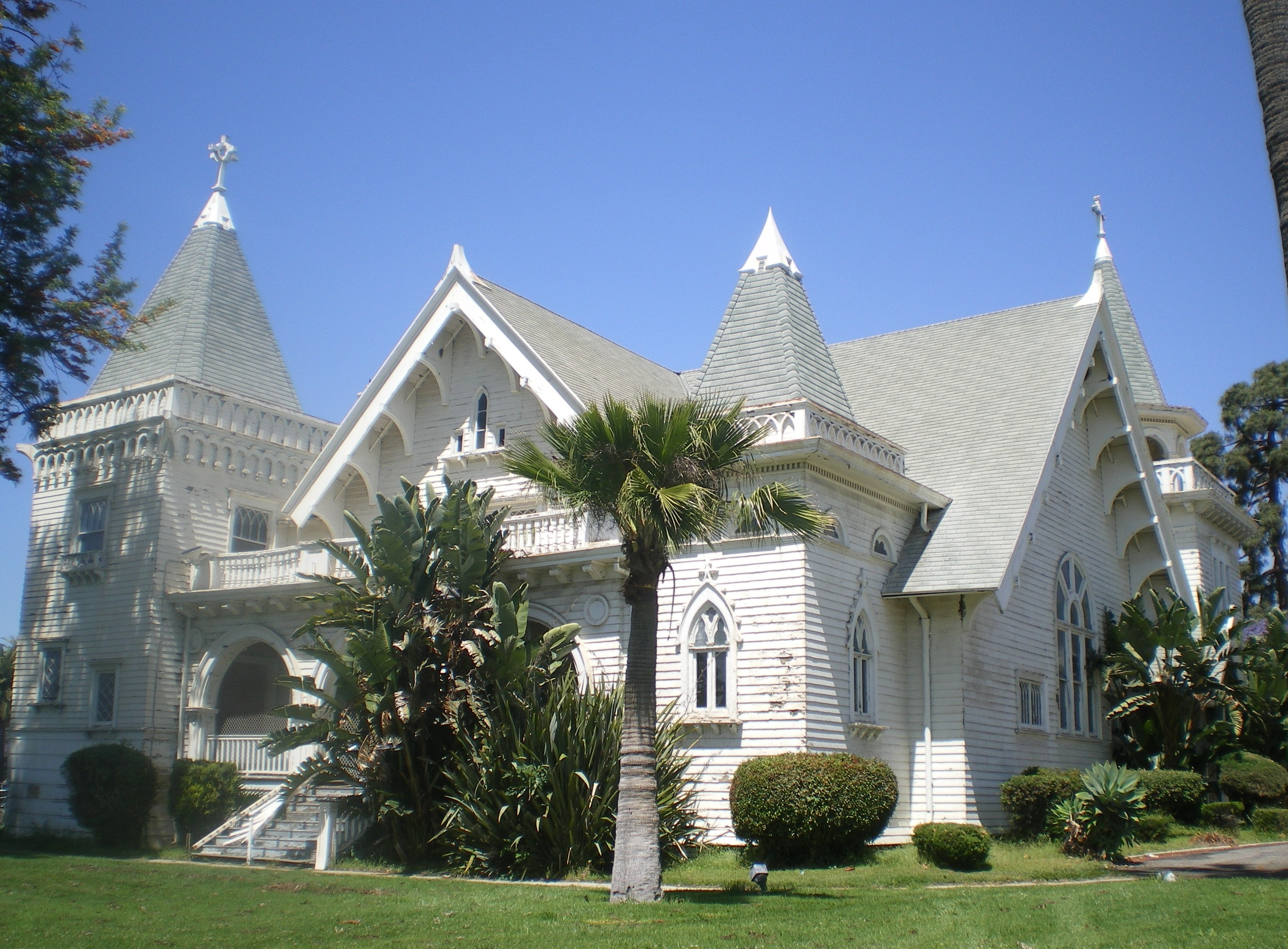 Catholic-Protestant Chapels, Veterans Administration Center, West Los Angeles, California